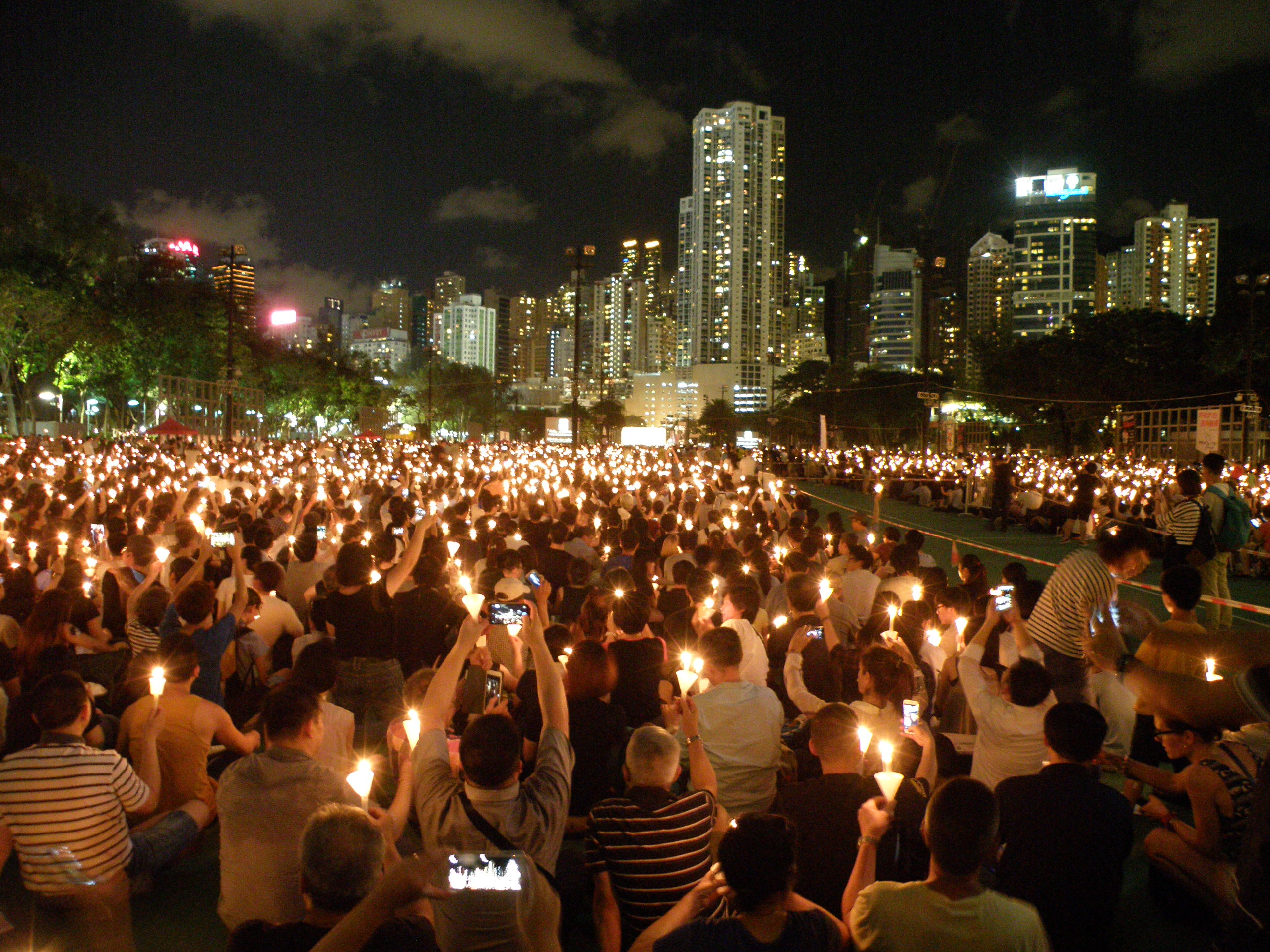 Candlelight vigil for the 26th anniversary of the June 4th incident in Causeway Bay, Hong Kong.